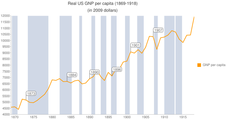 A chart of real US GNP per capita from 1869 to 1918 (covering the period of the Long Depression and the Gilded Age). Annotations are major financial panics during the period (e.g., Panic of 1893, Panic of 1907). Shaded areas are recessions as determined by the NBER. Data on real GNP comes from The American Business Cycle by Robert Gordon (see here). Population data taken from United States census estimates. Figures were adjusted from 1972 dollars to 2009 dollars using CPI estimates from the Federal Reserve. Chart was generated using Google Charts.